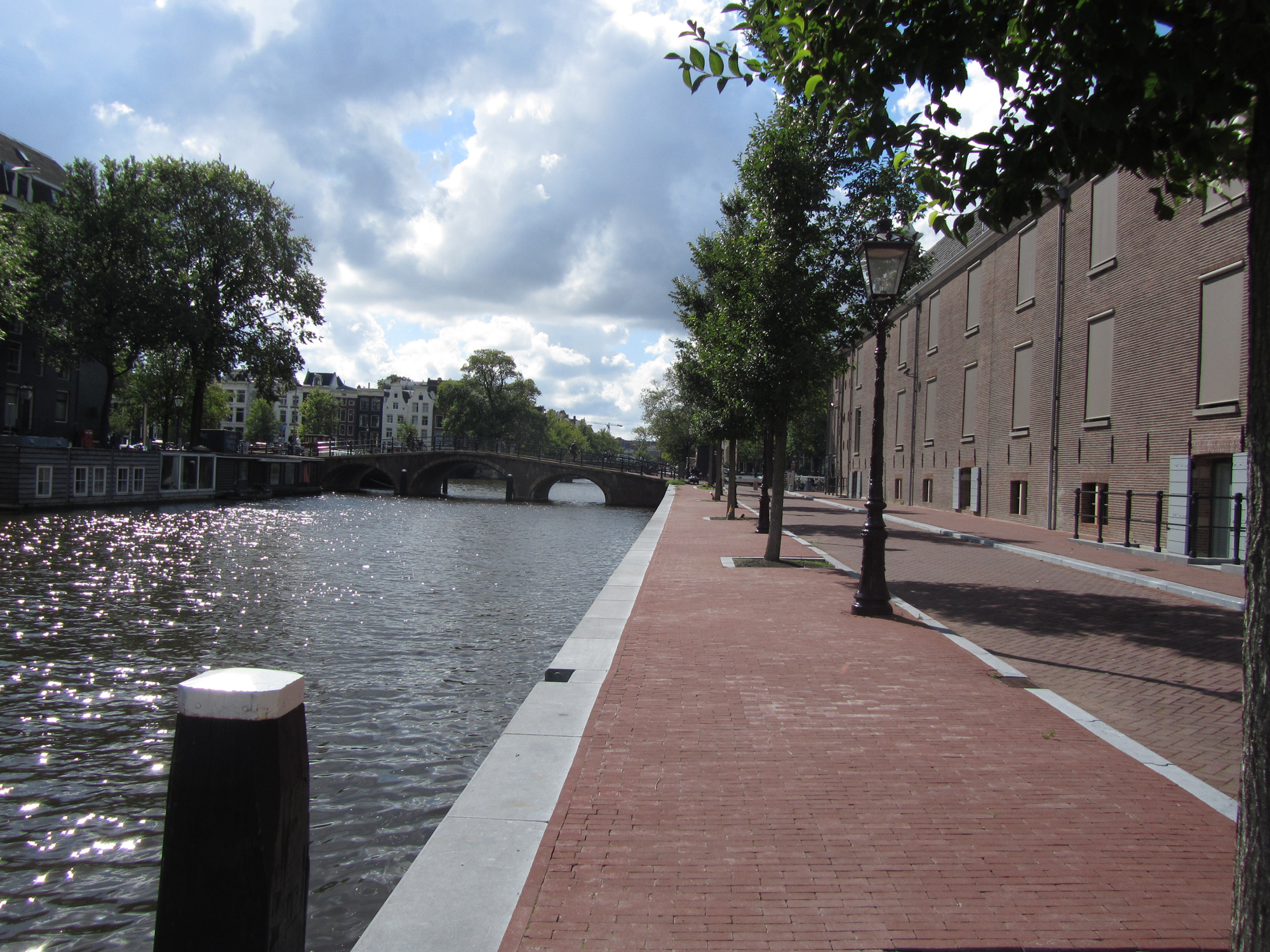 Nieuwe Keizersgracht canal, looking west towards the bridge where the canal meets the Amstel river. On the right, part of the southern facade of the Hermitage can be seen.